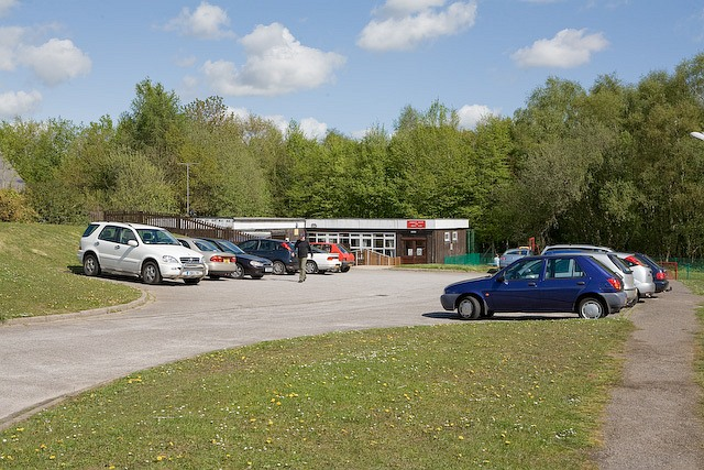 Community Centre and Social Club, Fleming Avenue, North Baddesley